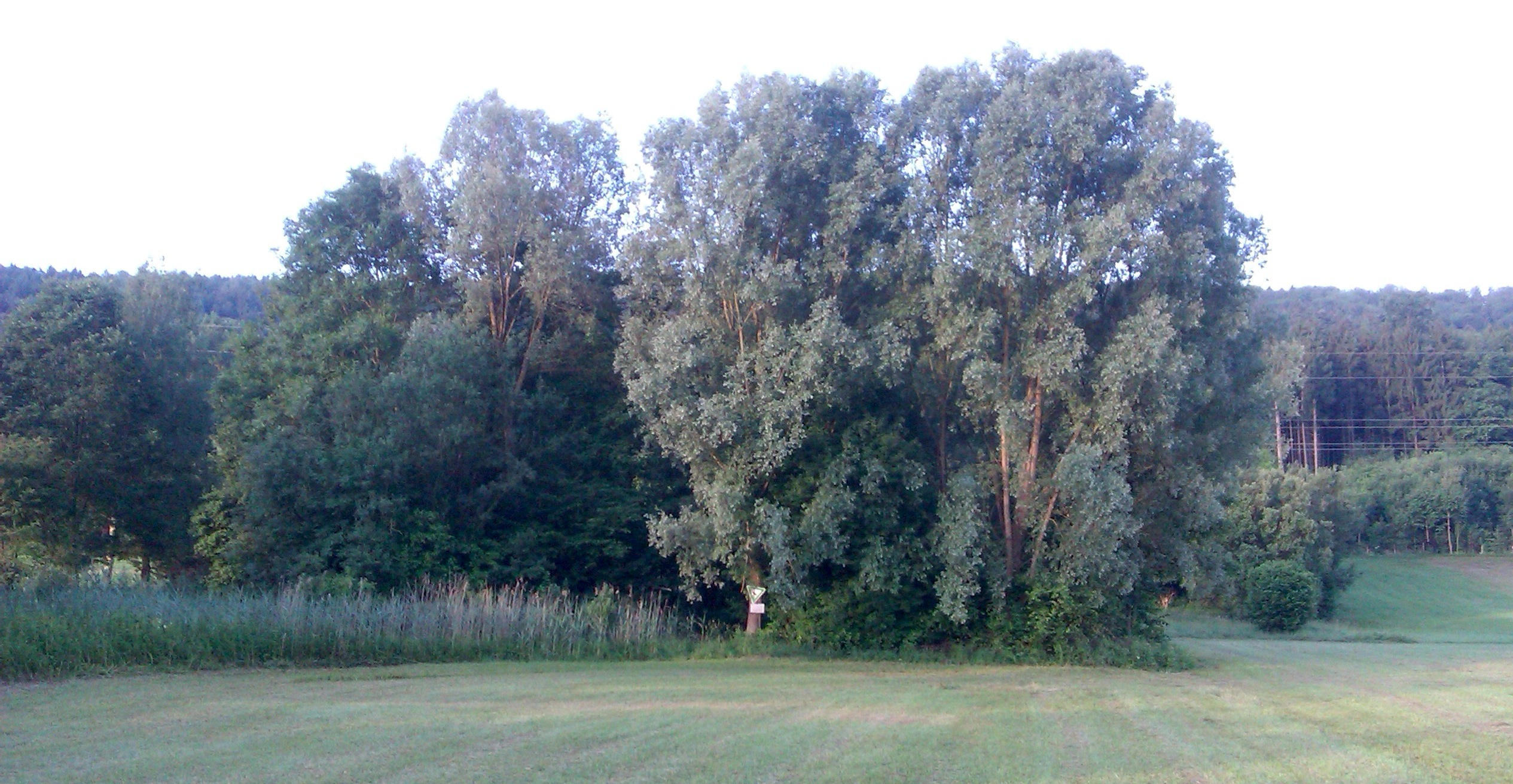 Natural monument “Teiche in den Bäderwiesen”, Plüderhausen